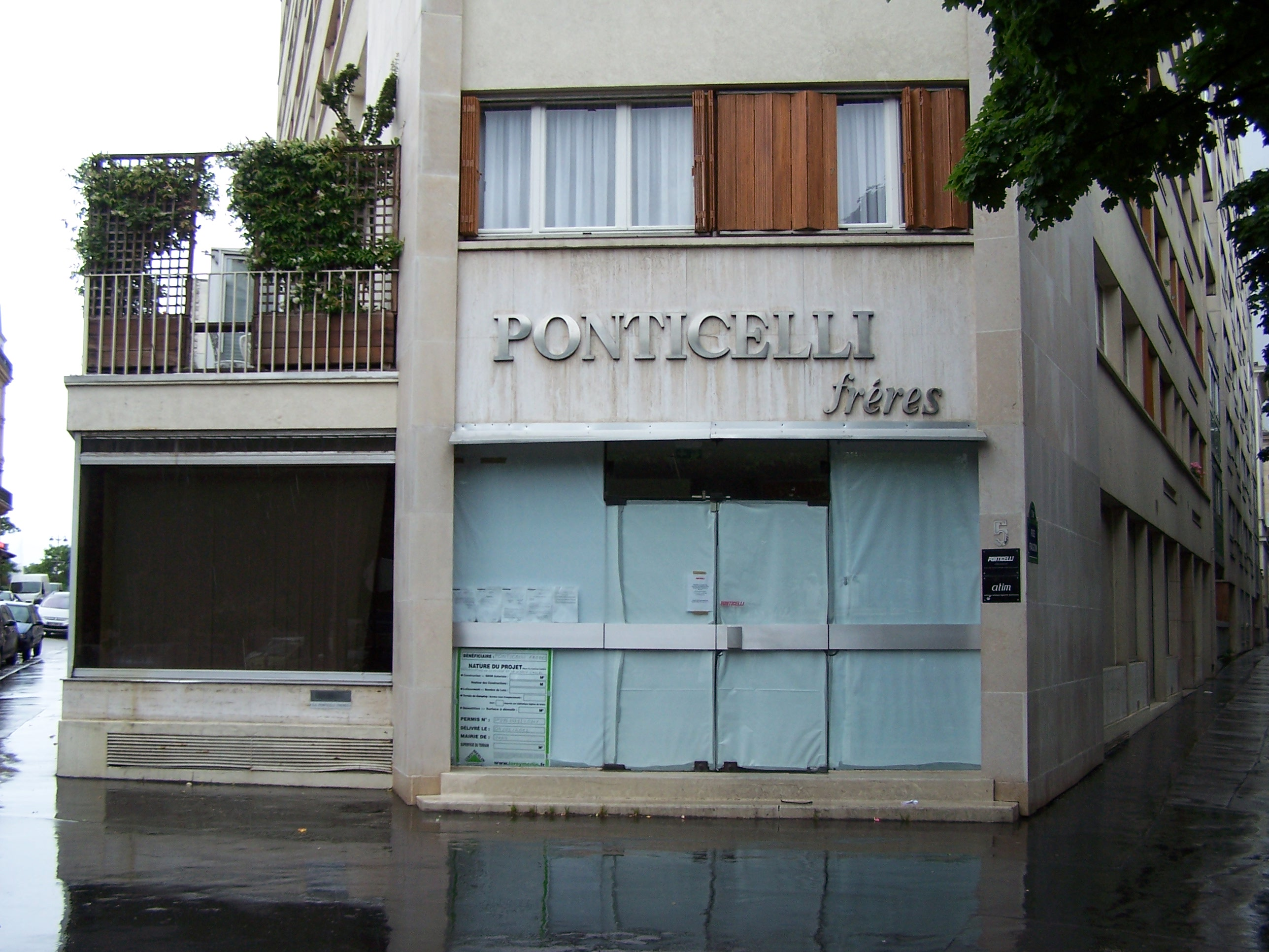 Headquarters of Ponticelli Frères society at place des Alpes in Paris